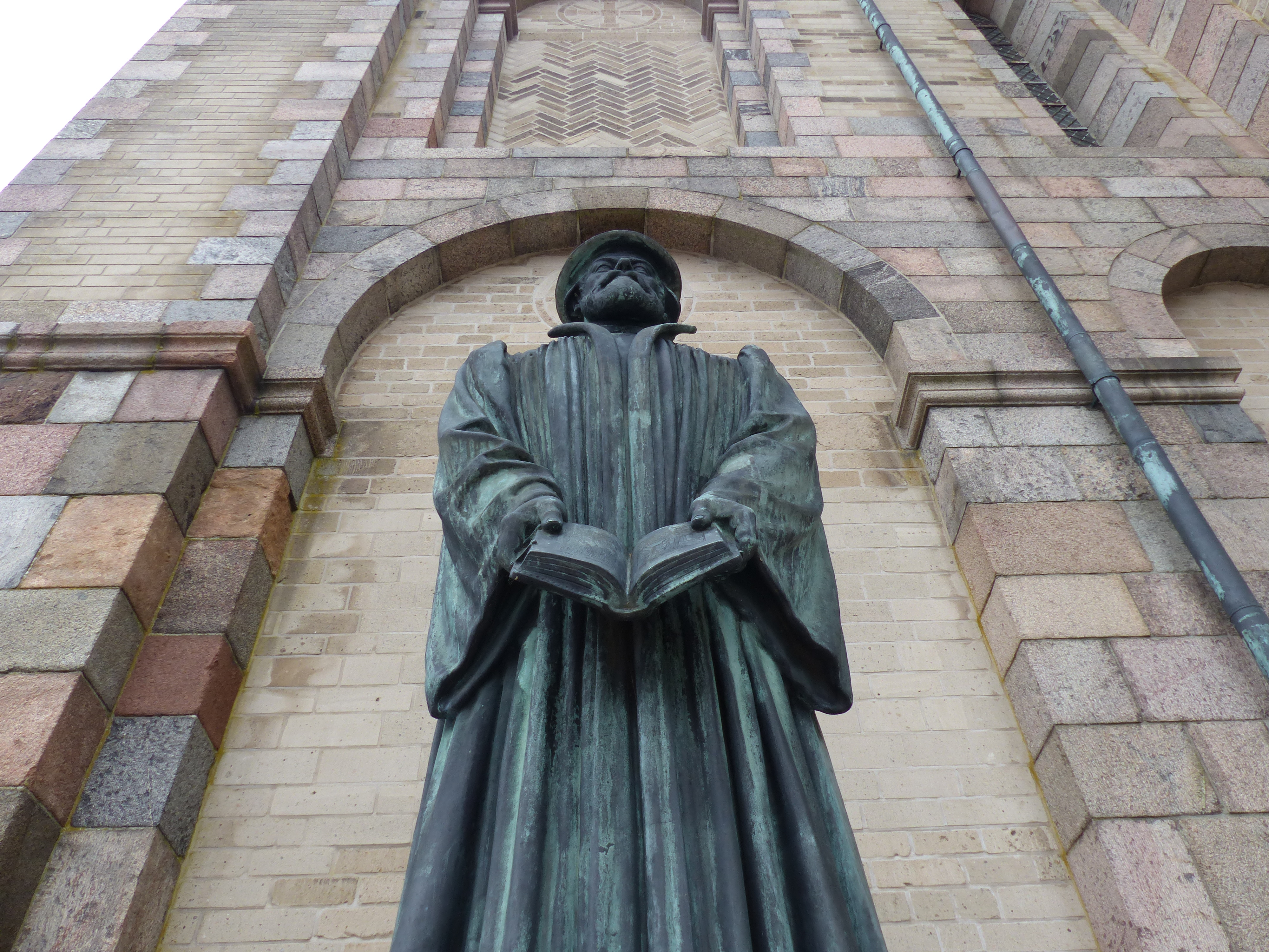 The statue of Hans Tausen in front of the Ribe Cathedral.